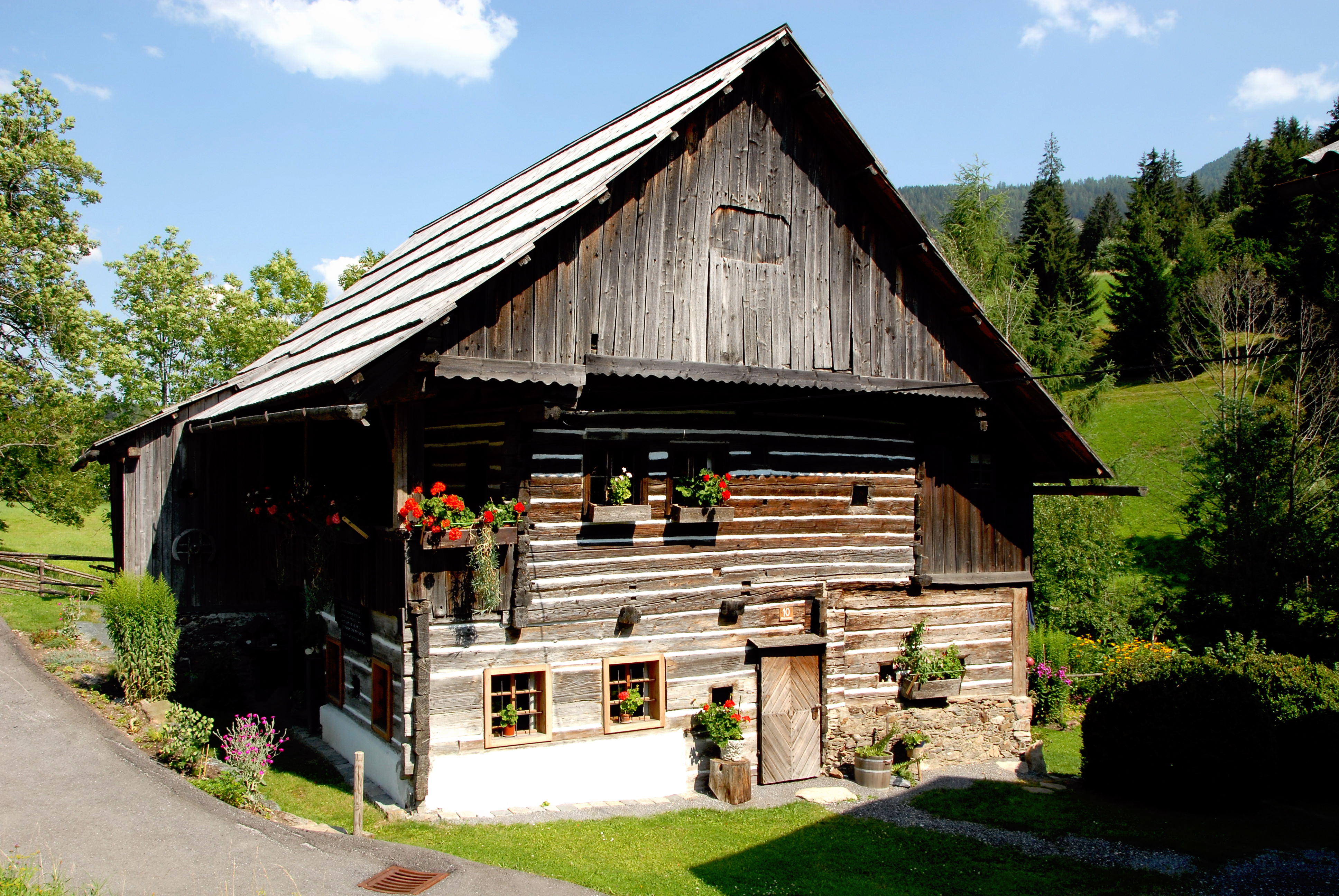 Old wooden house (example of former rural architecture) in Bad Kleinkirchheim in the community Bad Kleinkirchheim, district Spittal on the Drau, Carinthia, Austria